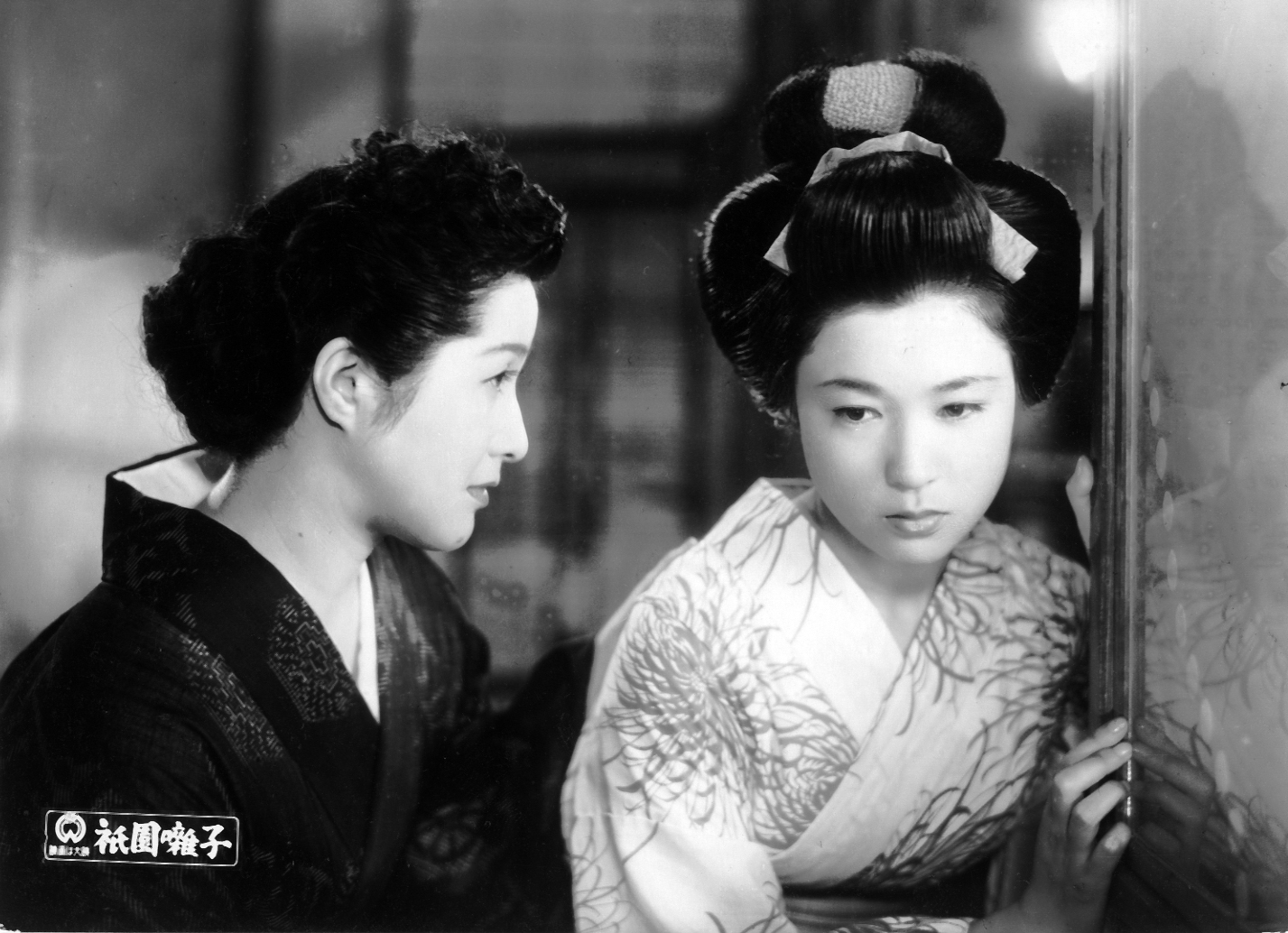 Michiyo Kogure and Ayako Wakao in Gion bayashi (祇園囃子) directed by Kenji Mizoguchi - 1953